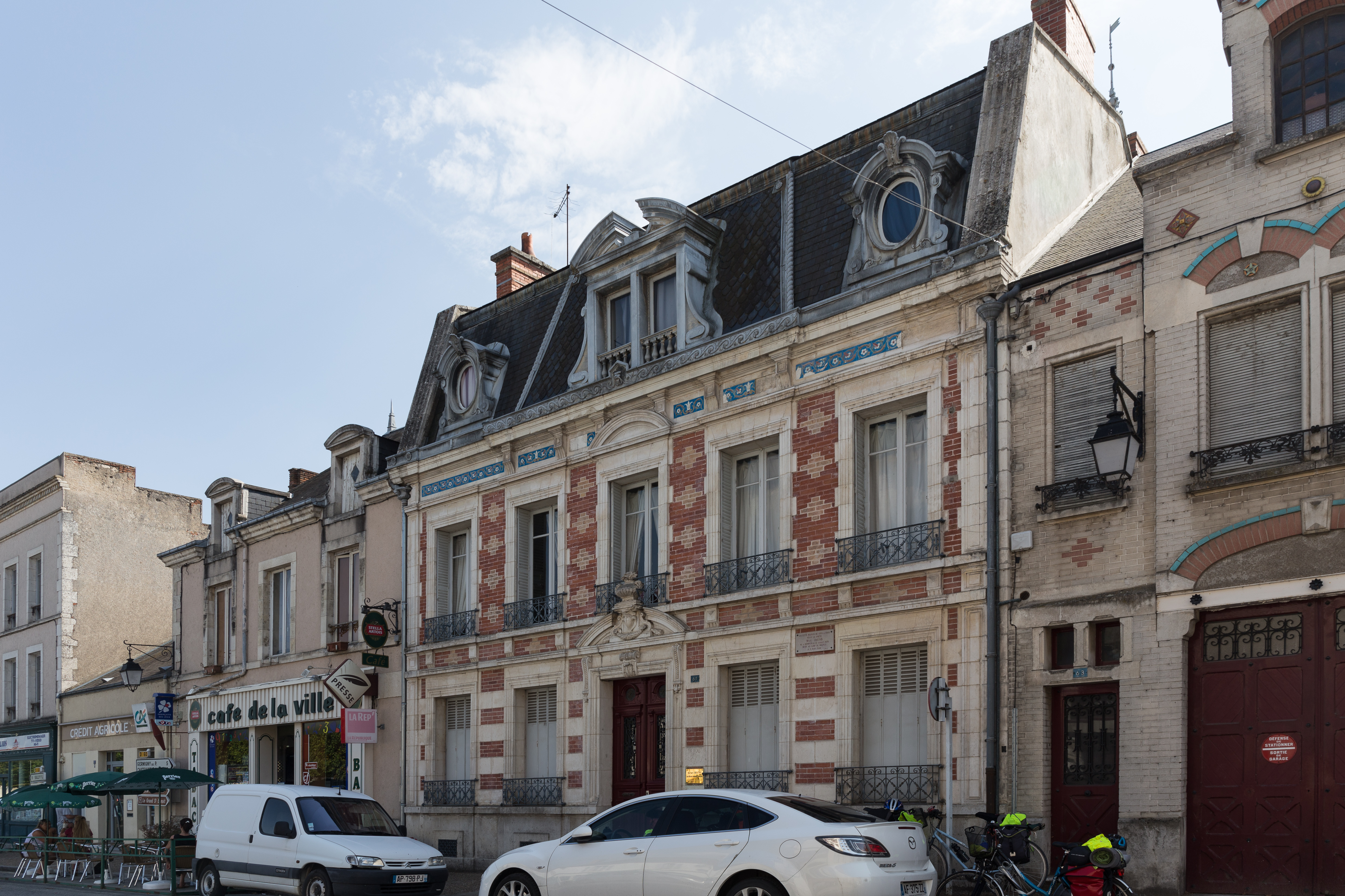 House of Max Jacob in Saint-Benoît-sur-Loire.